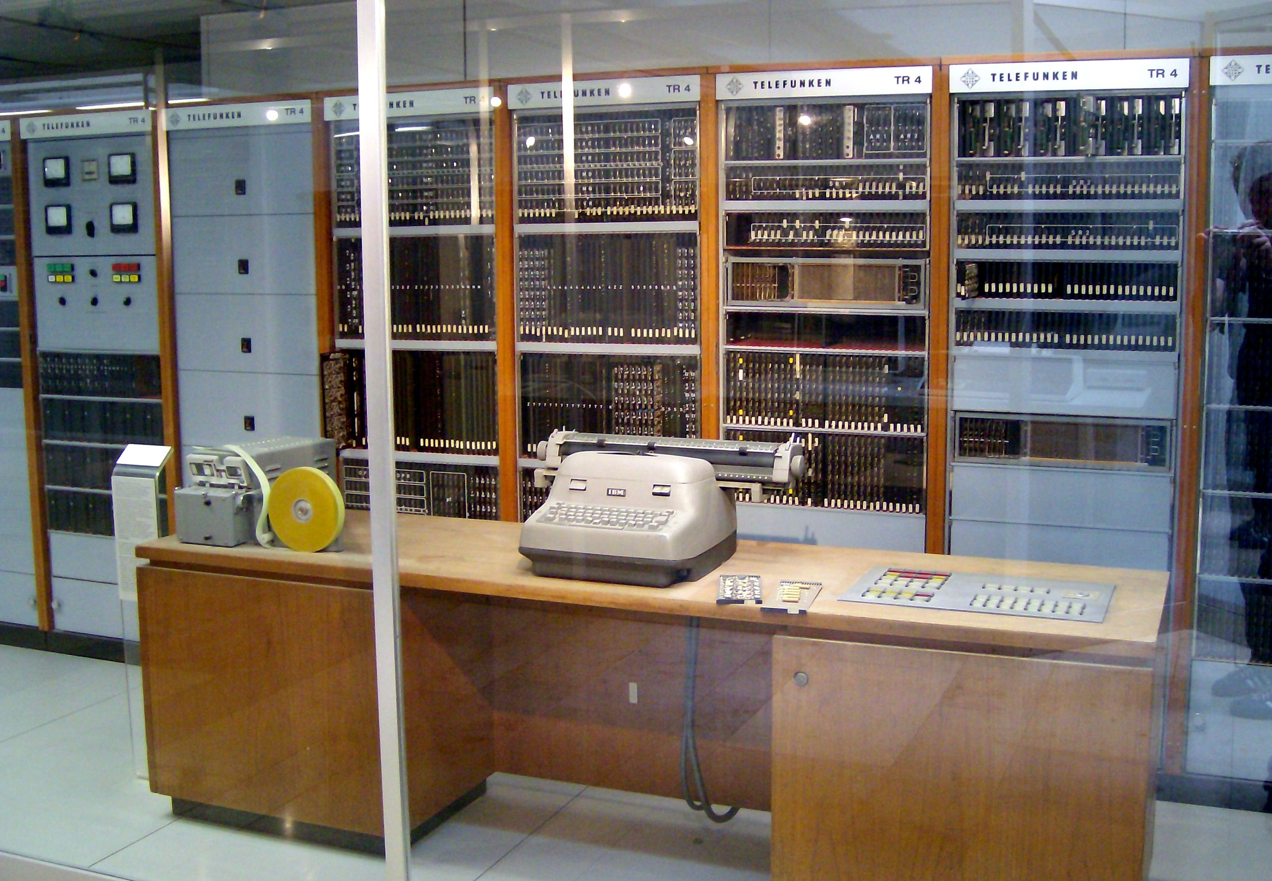 Telefunken TR 4 mainframe computer